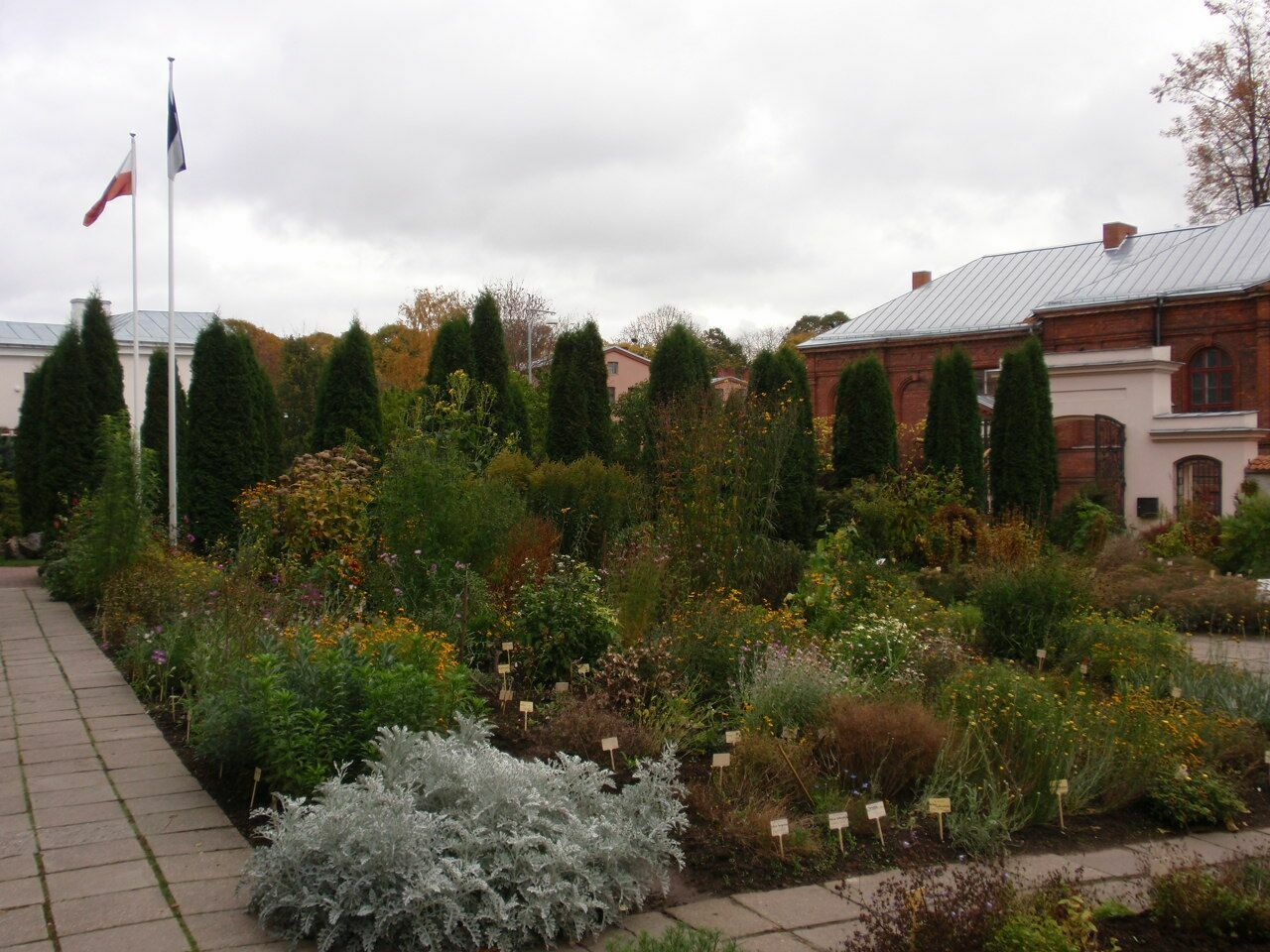 Botanical garden of Tartu University, 2008.